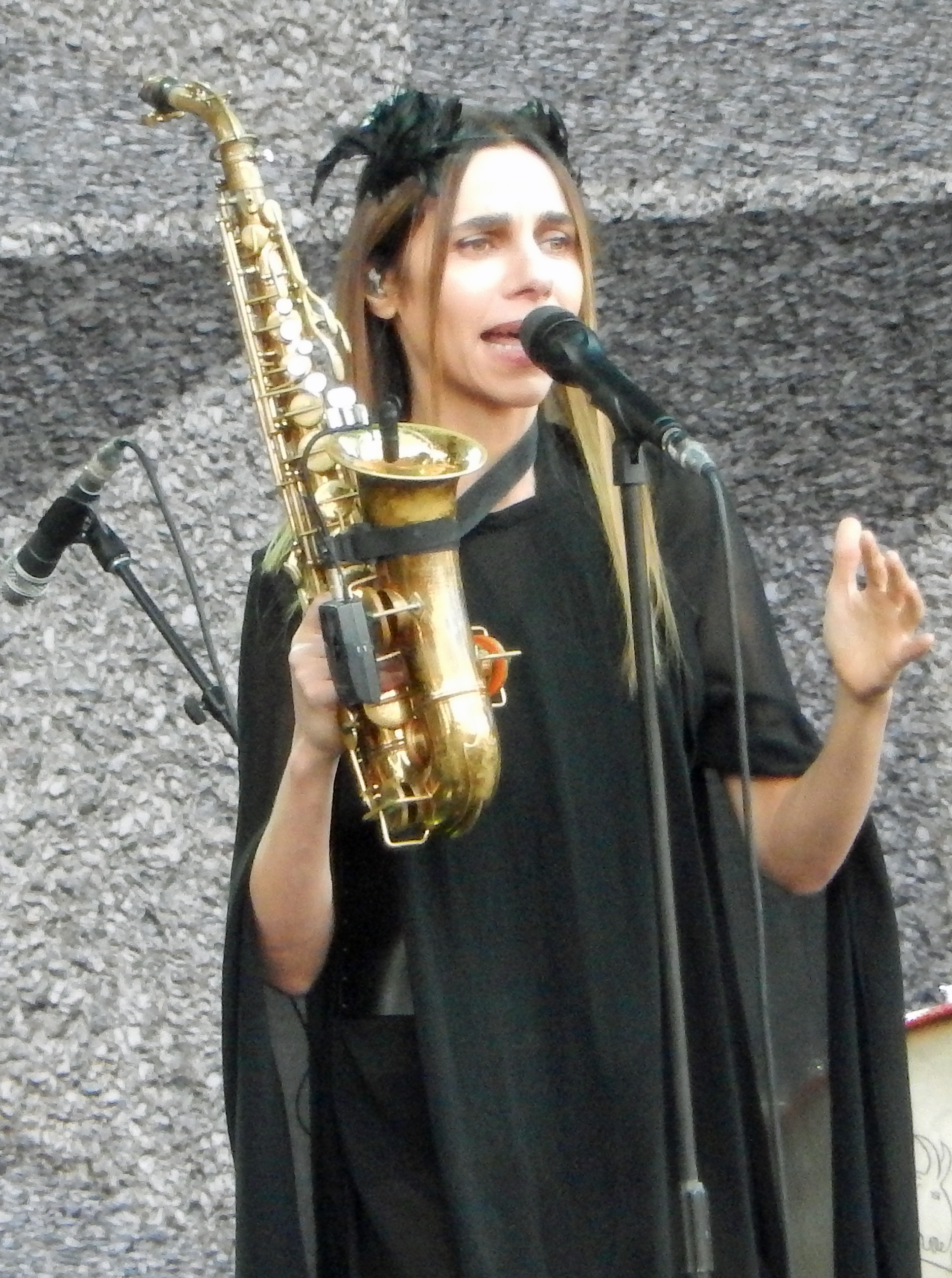 PJ Harvey @ Pitchfork, Chicago 7/15/2017